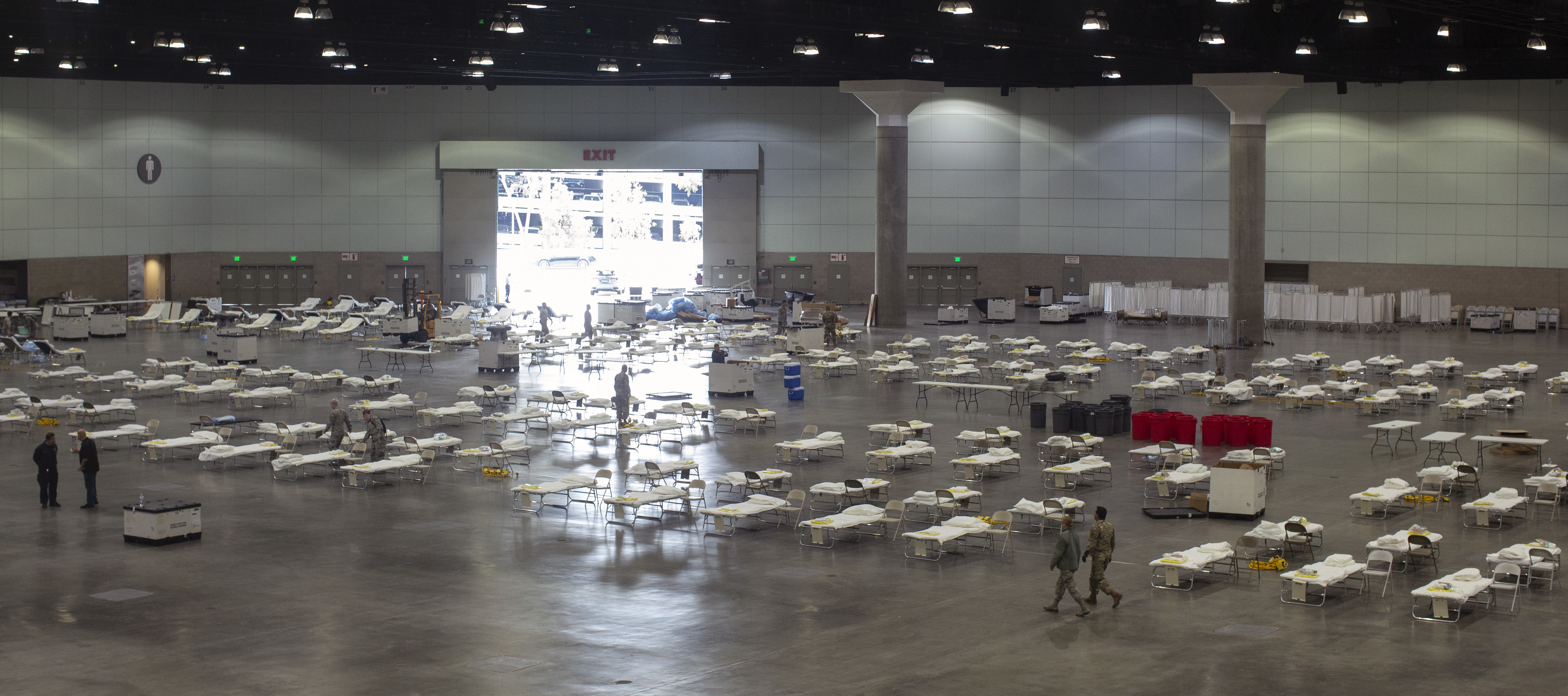 Hospital beds line the floor of the Los Angeles Convention Center as Airmen from the California Air National Guard's 146th Airlift Wing set up a Federal Medical Station, March 29, 2020, in Los Angeles, as part of California's statewide COVID-19 response effort. The station includes 250 hospital beds along with necessary medical equipment and supplies to treat patients.